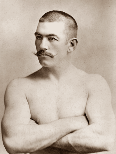 John Lawrence Sullivan (October 15, 1858 – February 2, 1918), also known as the Boston Strong Boy, in his prime. He was recognized as the first heavyweight champion of gloved boxing from February 7, 1882 to 1892, and is generally recognized as the last heavyweight champion of bare-knuckle boxing under the London Prize Ring rules